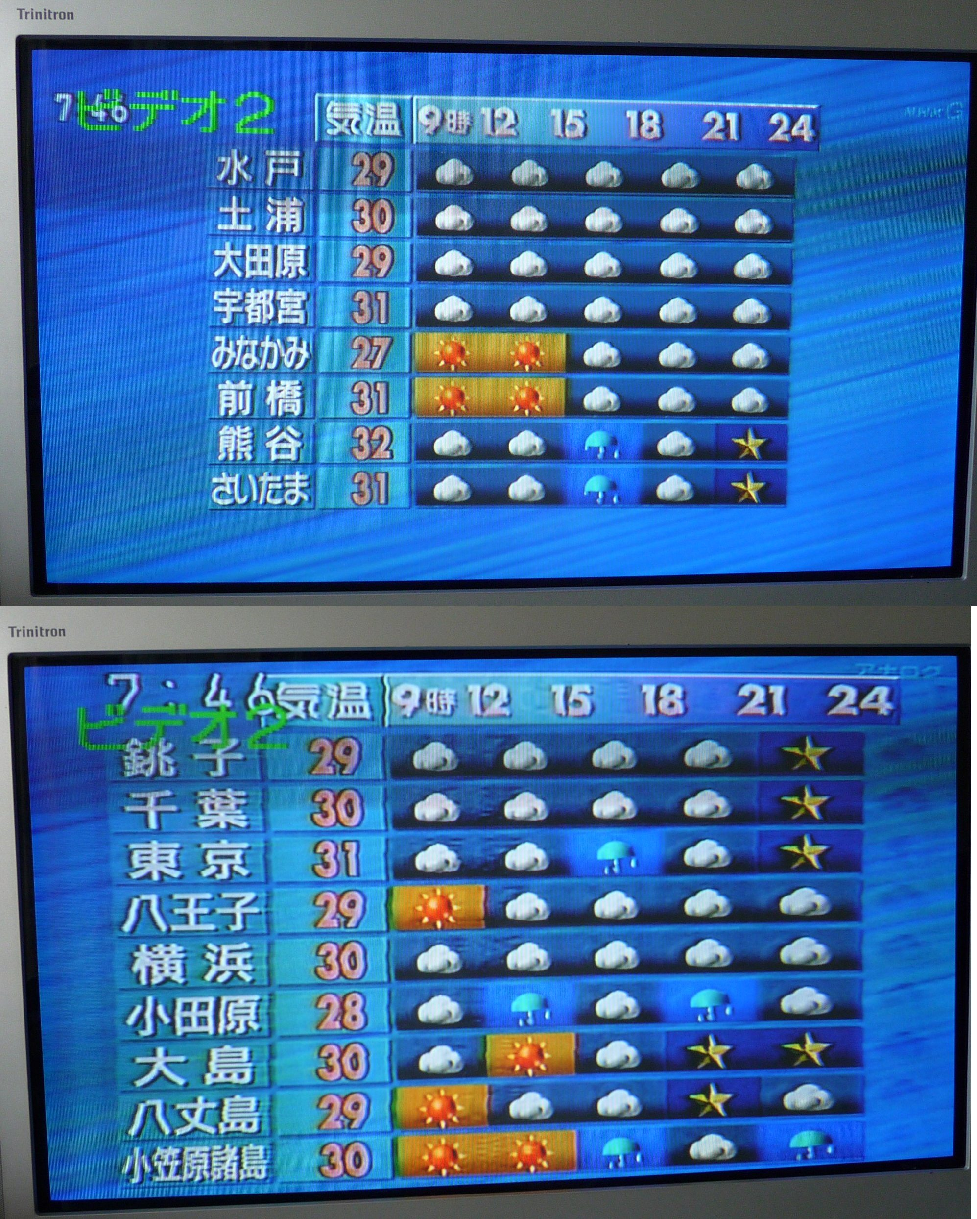 Demonstrating Digital (ISDB-T) and Analog (NTSC) TV picture quality comparison, digital (upper) displays clear letters and vertical lines without distortion, analog (lower) presents distorted. Condition: TV Screen is displaying CATV signal on single coaxial cable reception by Panasonic DVD recorder DMR-XW-120 (with both digital and analog tuner type), output via "RCA connector" to Sony "Trinitron" TV. Each photo taken on 2008 Sept., 2, AM 7:45 within 1 minute. Screen content is weather forecasting of NHK. Japanese ISDB-T & NTSC system